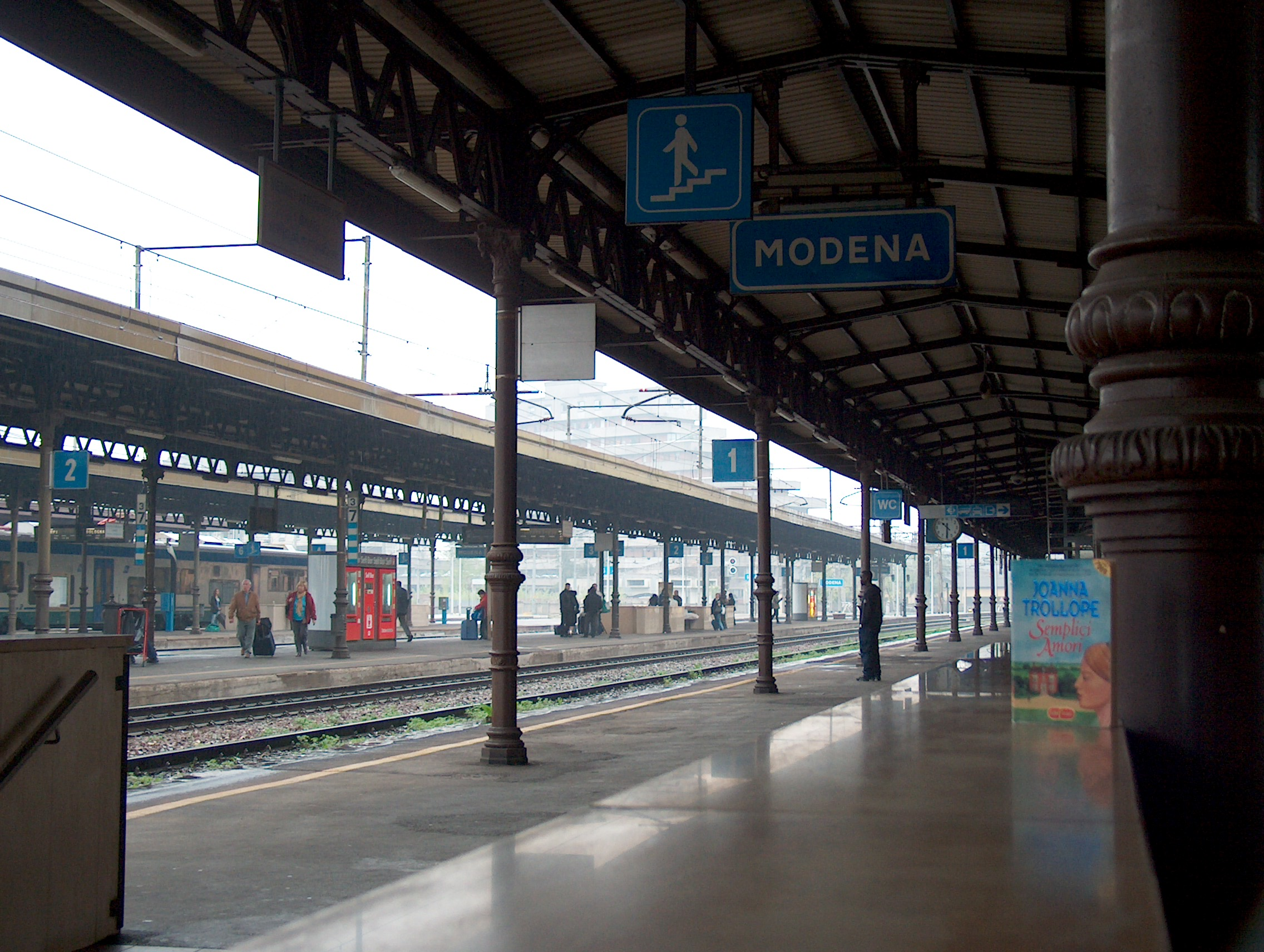 A Bookcrossing book at the Railway Station in Modena